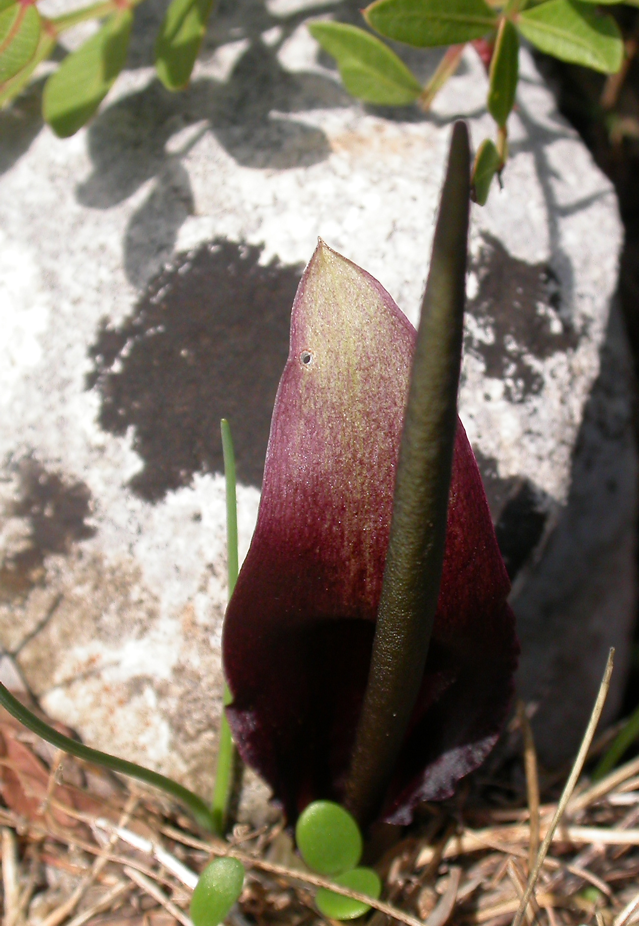 Biarum tenuifolium ssp. abbreviatum. Growing at 756m on the summit of Mount Vrachíonas, Zakynthos